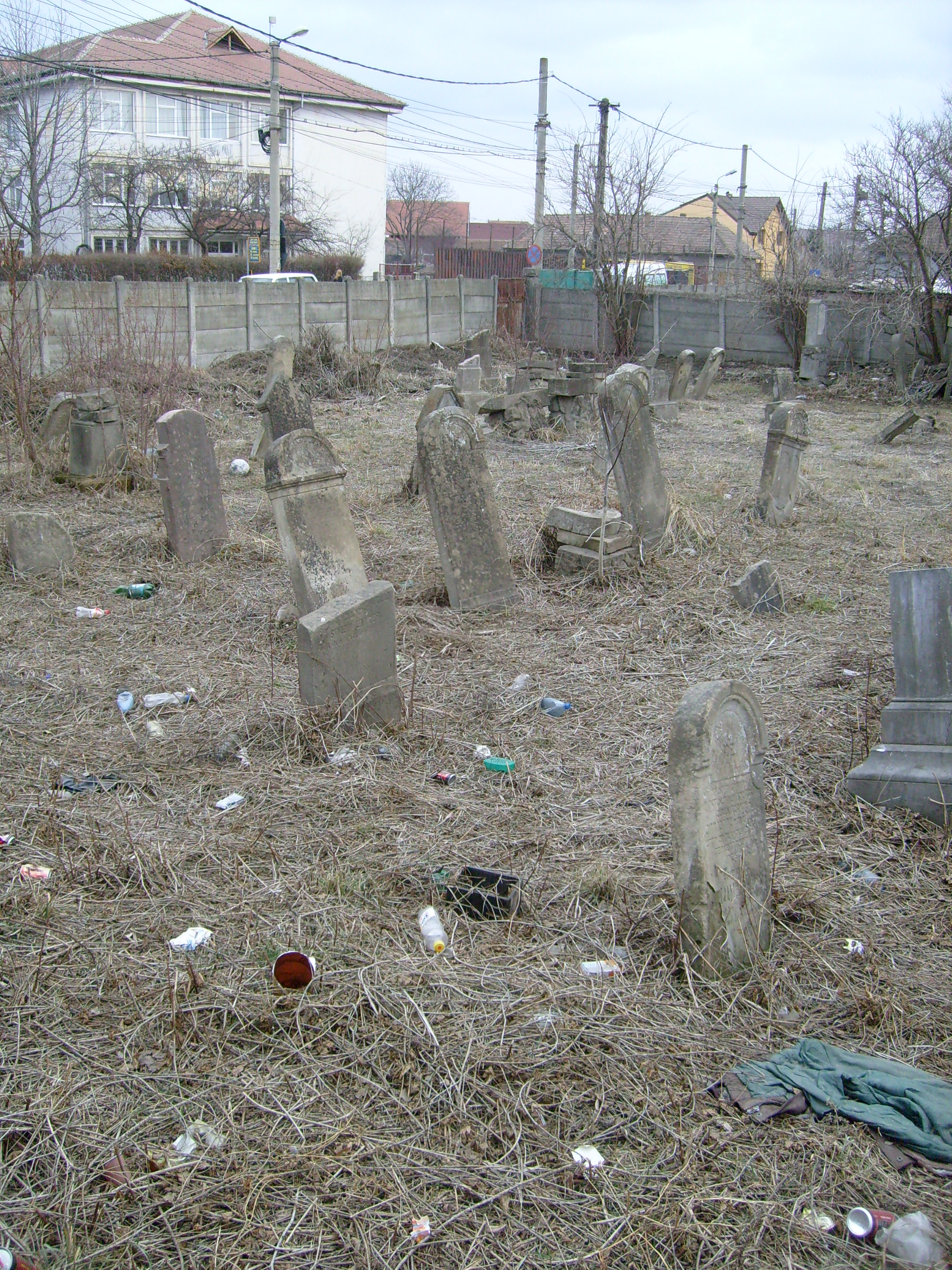 Jewish Cemetery in Sibiu, strada Guşteriţei.